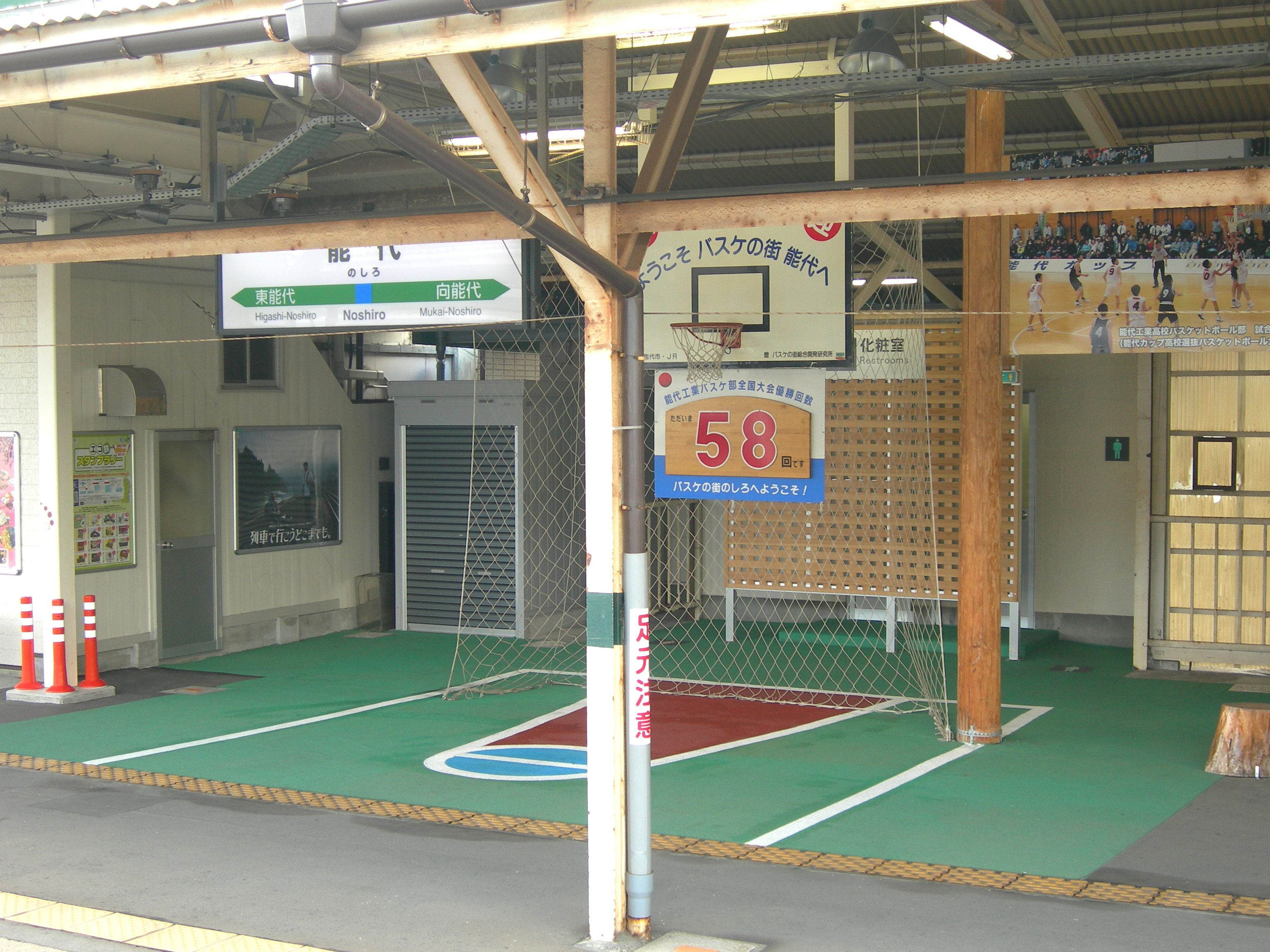 Basketball goal on Noshiro Station platform